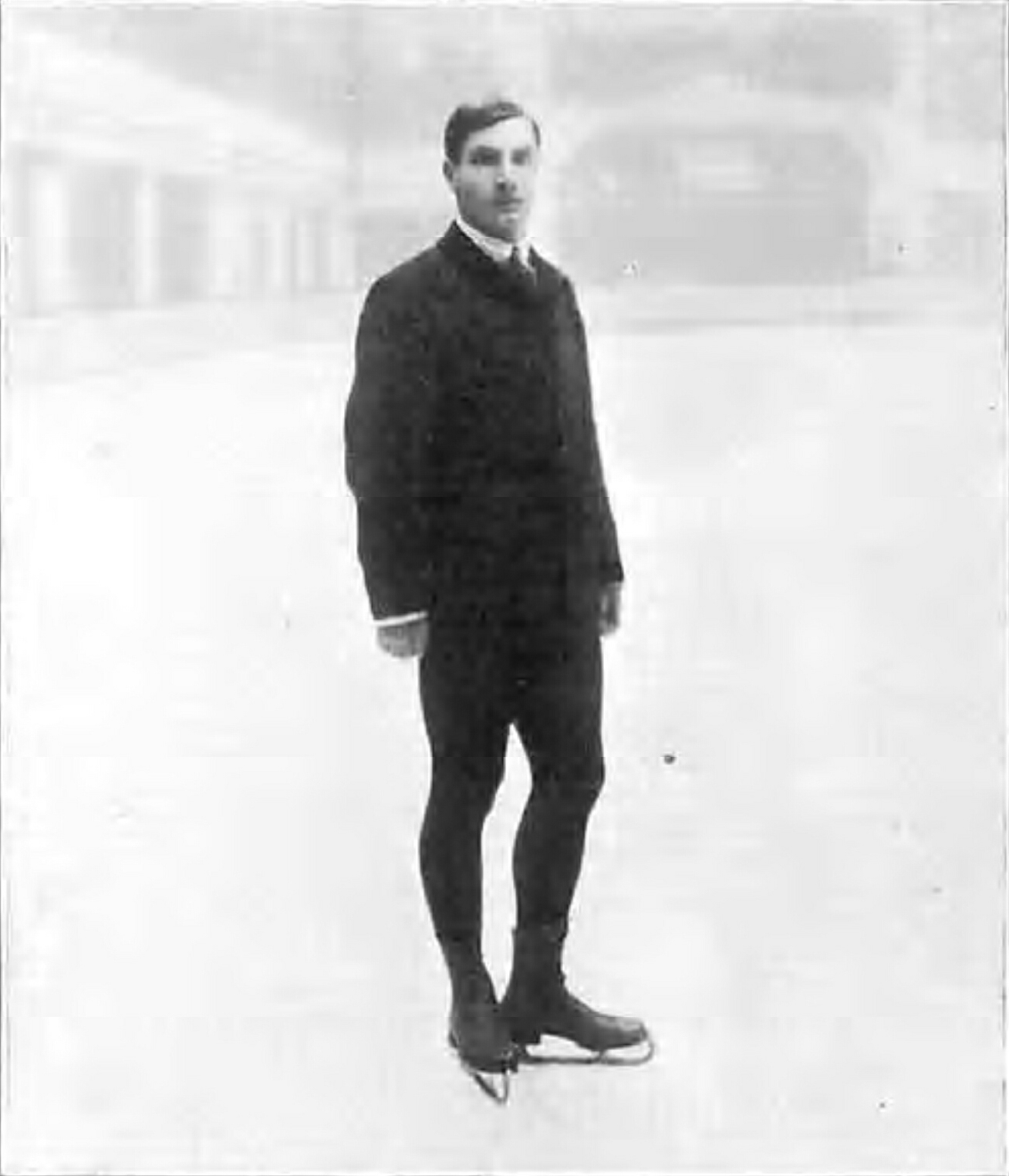 Swedish skater Ulrich Salchow at en:1908 Summer Olympics in London.